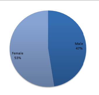 The pie chart of the gender of Mandalay Region in 2014.